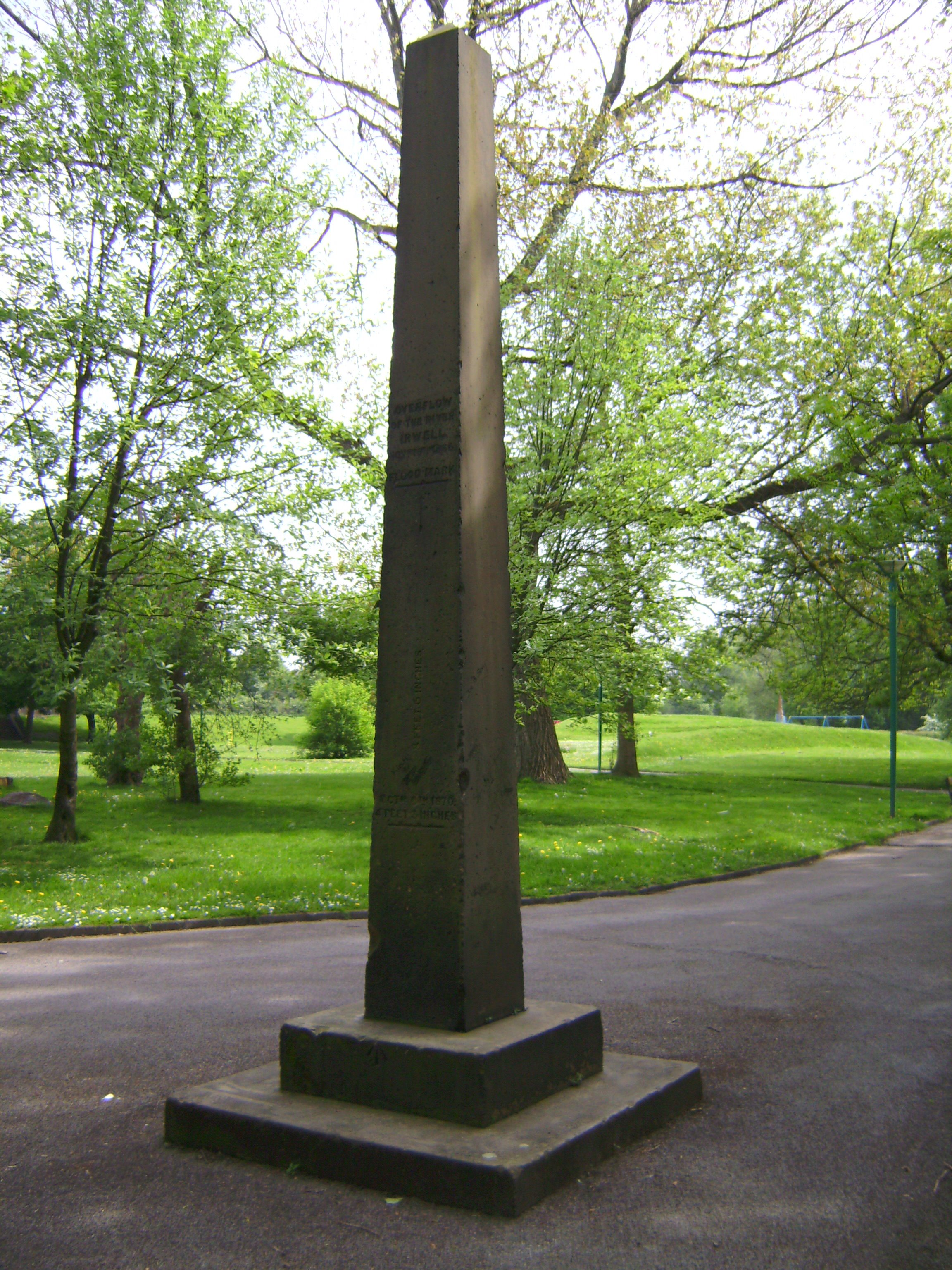 Flood obelisk commemorating 1866 floods in Salford, Greater Manchester showing flood level of 8 feet 6 inches. A second line at 4 feet 3 inches was added after the floods of 1870